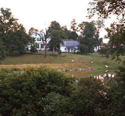 Landscape surrounding "Bracketts," located within the Green Springs National Historic Landmark District, Louisa County, Virginia. Photograph courtesy of the National Historic Landmark Program, part of the National Park Service.